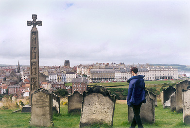 Whitby, Yorkshire, England from St. Mary's Churchyard.